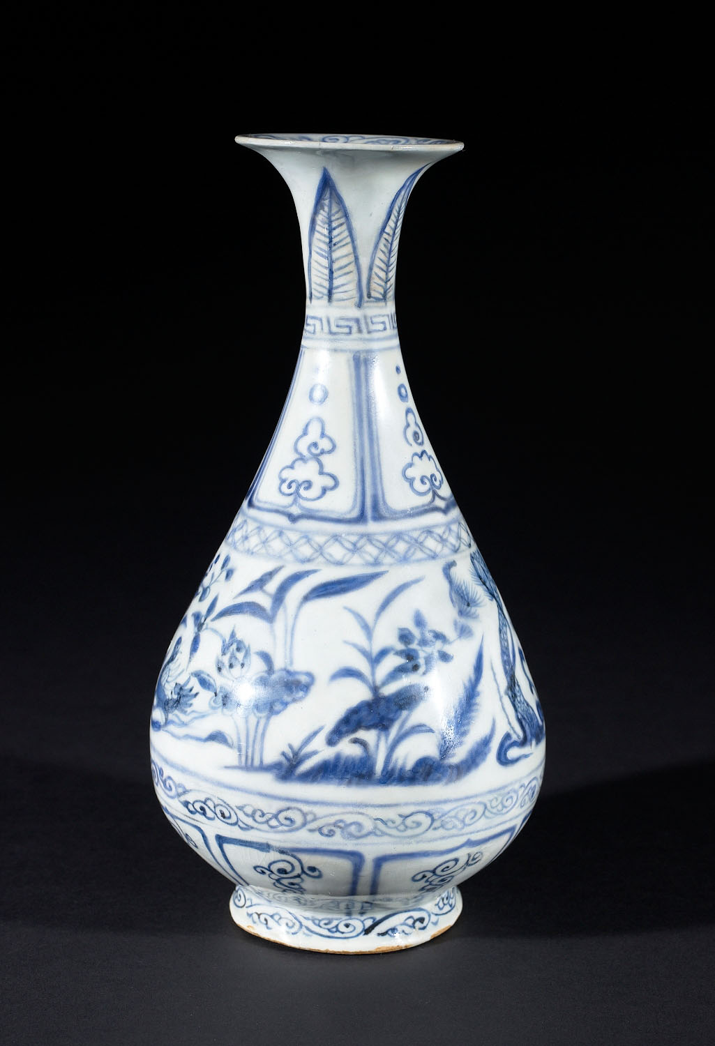 A porcelain bottle from the Chinese Yuan dynasty. Known as Yuhuchun, which is translated as "Jade-vessel Spring."